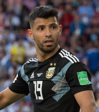 Sergio Agüero with Argentina against Iceland in the 2018 FIFA World Cup